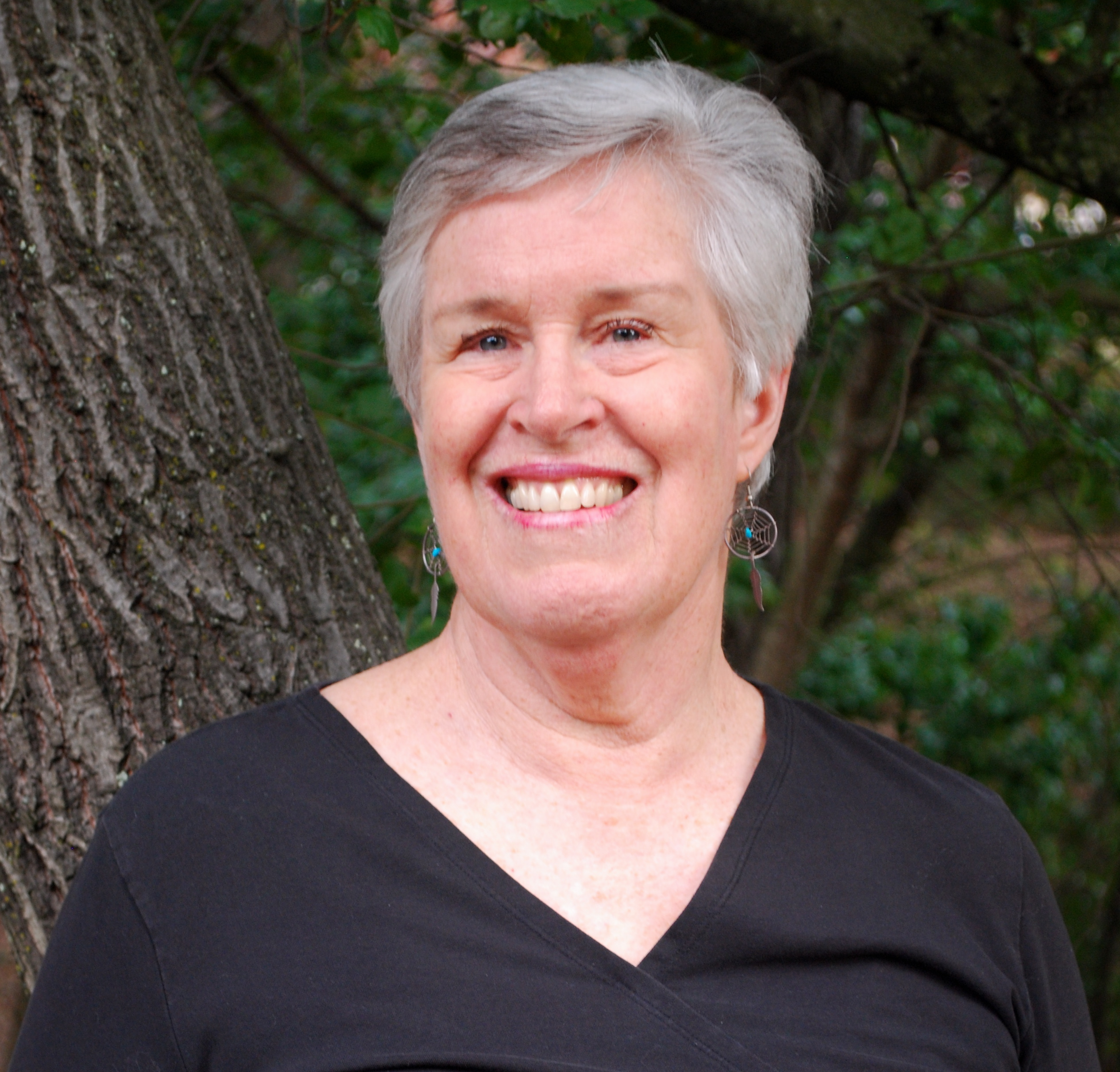 Photograph of Ginger Wadsworth